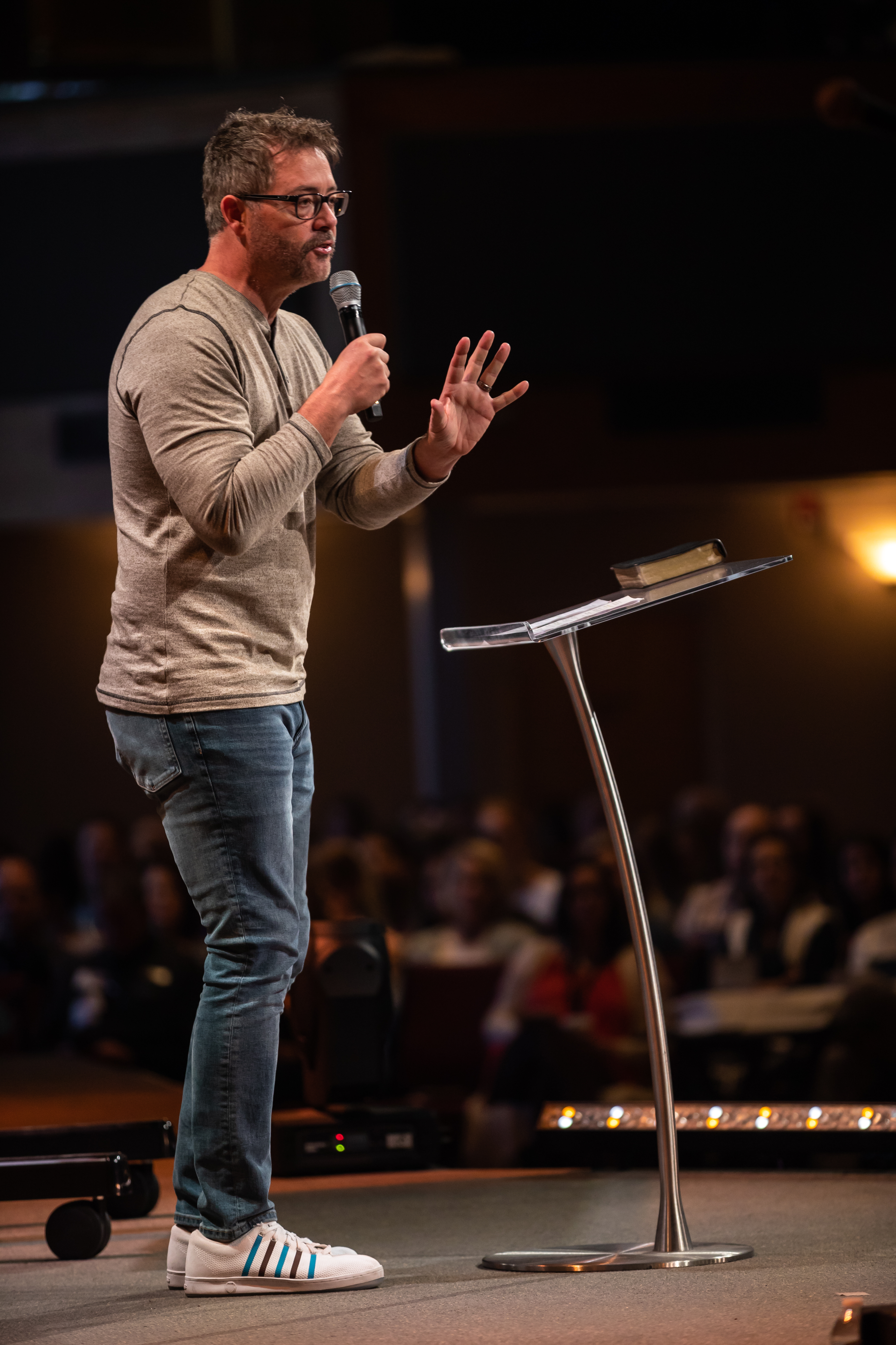 Darrin Patrick speaking at Seacoast Church.